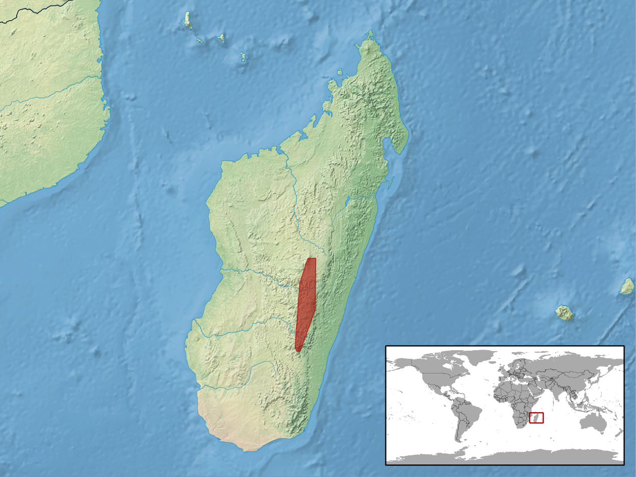 geographic distribution of Furcifer campani (Native: Madagascar)